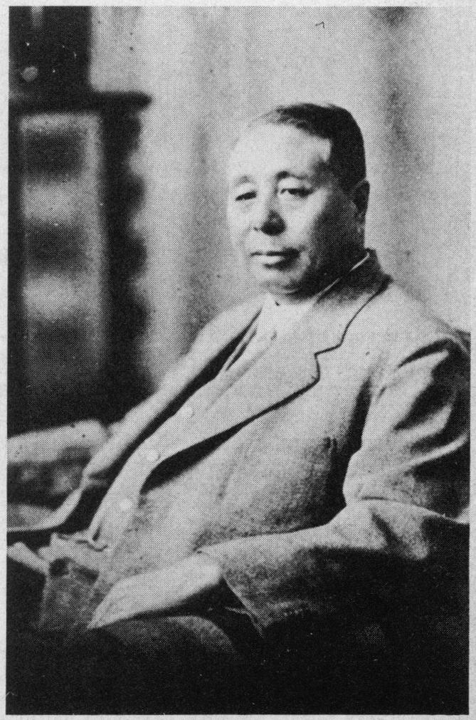 Kisaku Yoshimura (1879-1945), Japanese neurologist